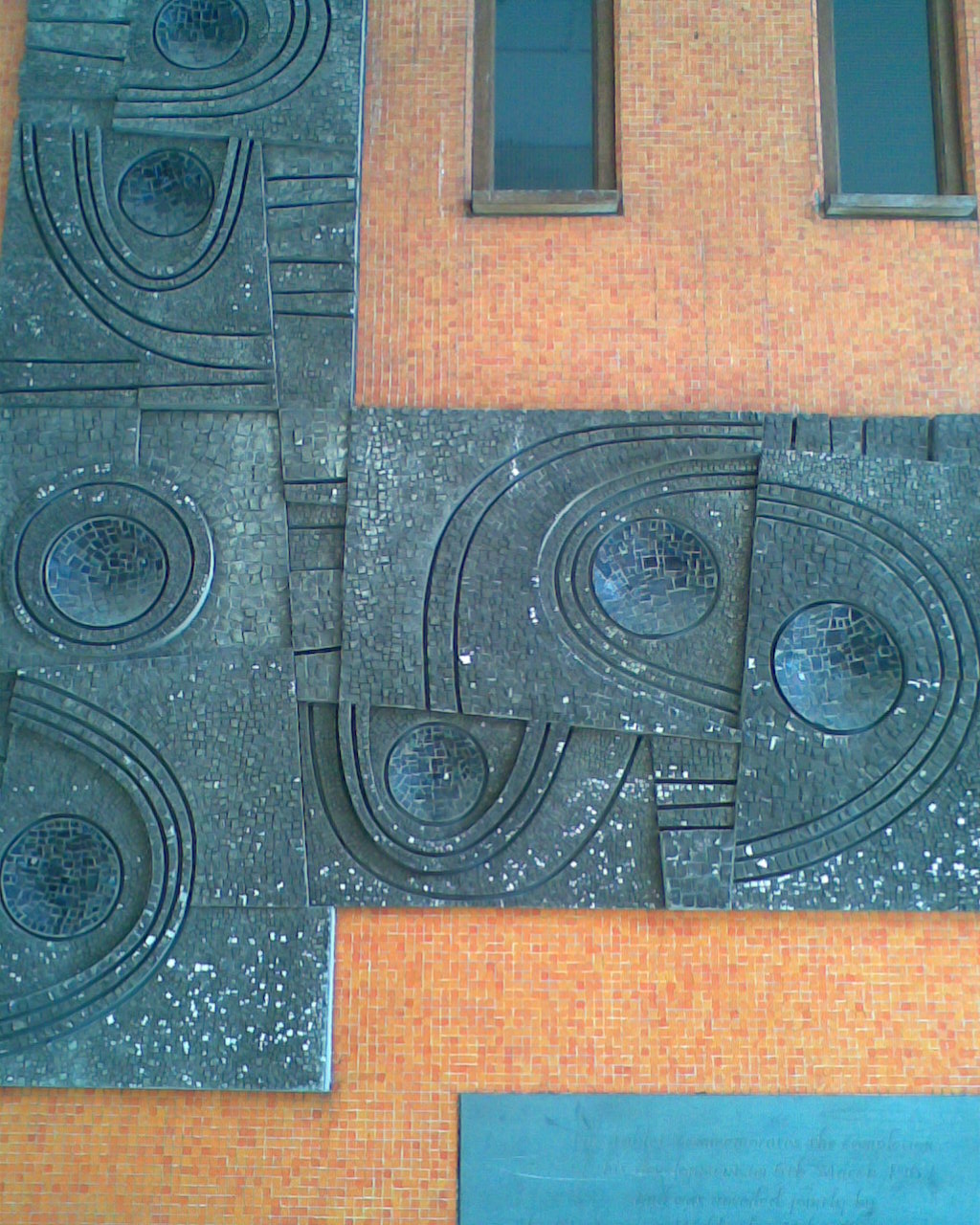 The mosaic from the Tower Centre